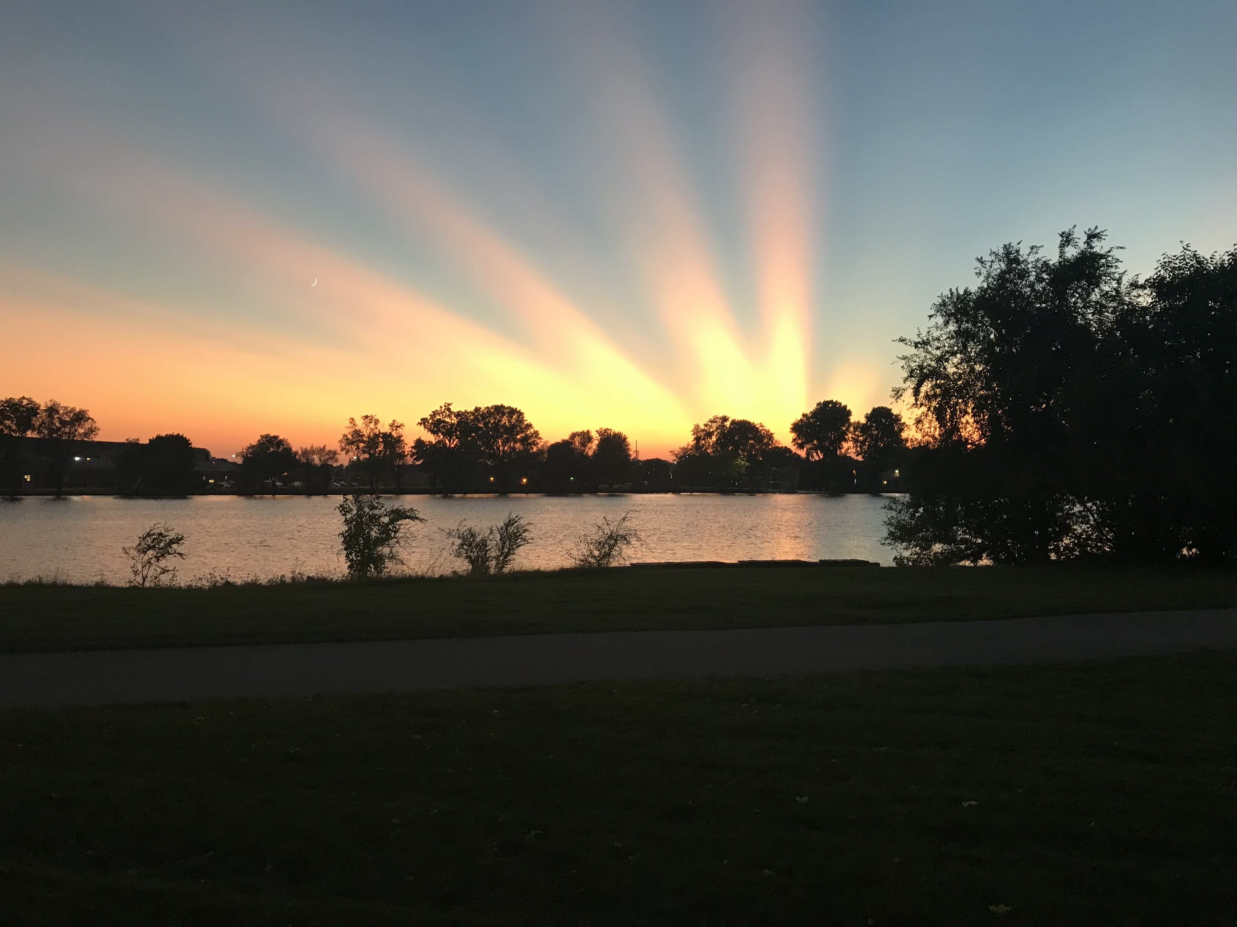 Segment of the Wiouwash State Trail in Oshkosh Wisconsin near the Fox River on the UW Oshkosh Campus.